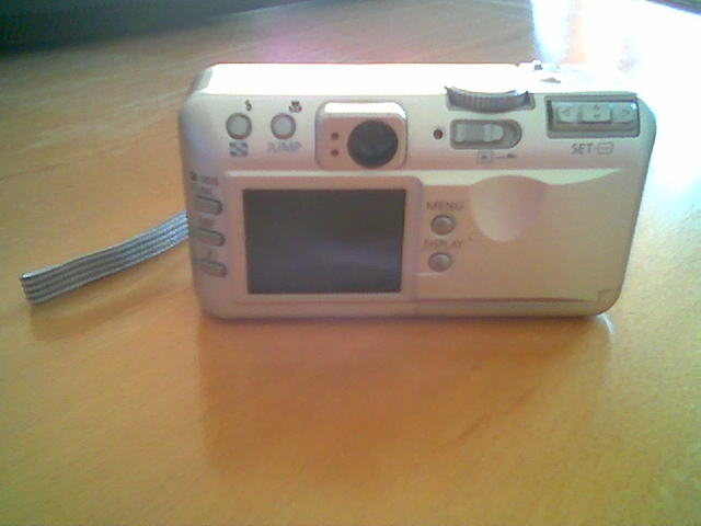 Canon Powerhot S50 - digital camera